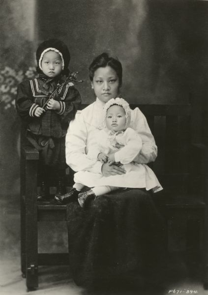 Anna May Wong seated in her mother's lap with her older sister standing, c. 1905.